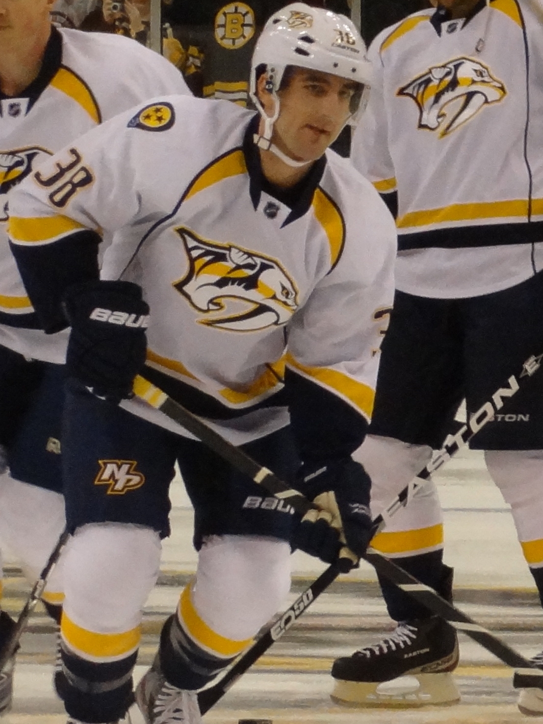 I took this picture of Jack at pre-game warm-ups at the TD Garden, Boston, MA on Feb 11, 2012.